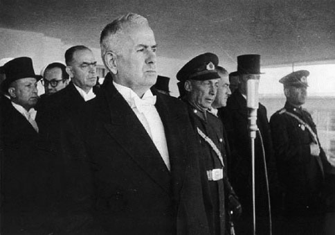 Kâzım Karabekir as speaker of the Turkish parliament (circa 1946-1948)